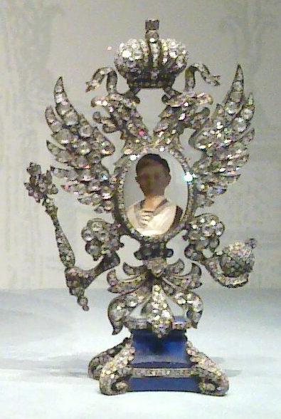 Surprise in the Tsarevich Fabergé egg.